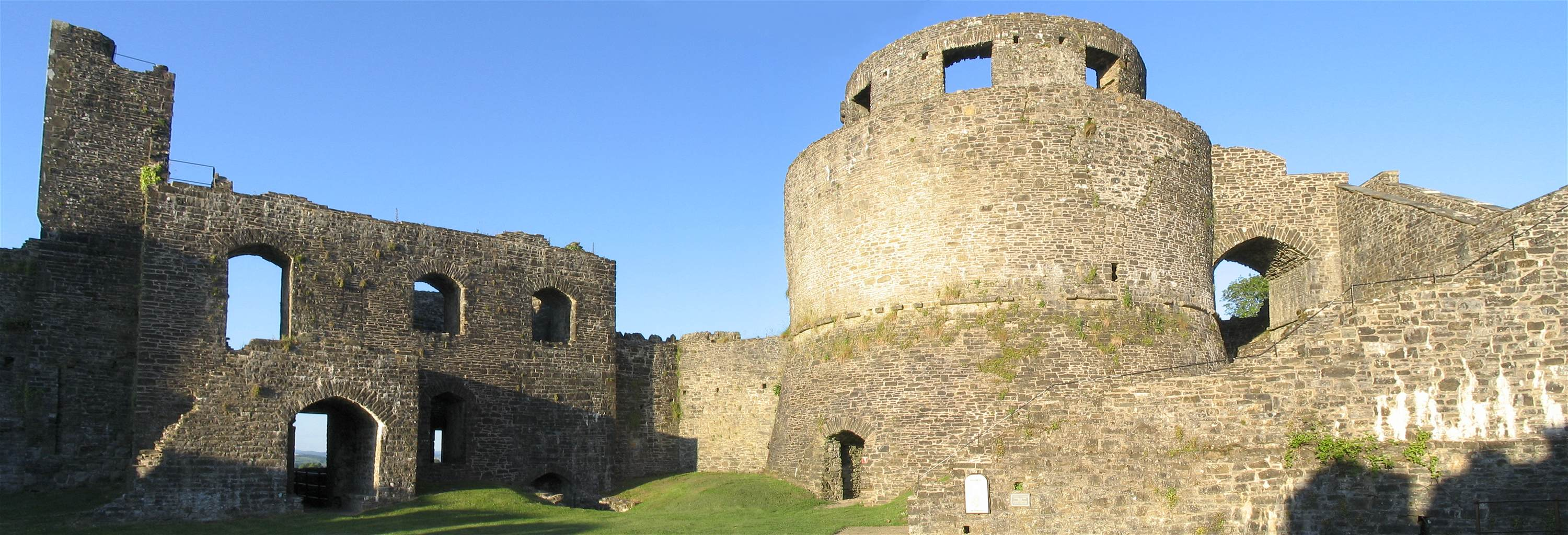 Dinefwr Castle, Dinefwr Park near Llandeilo